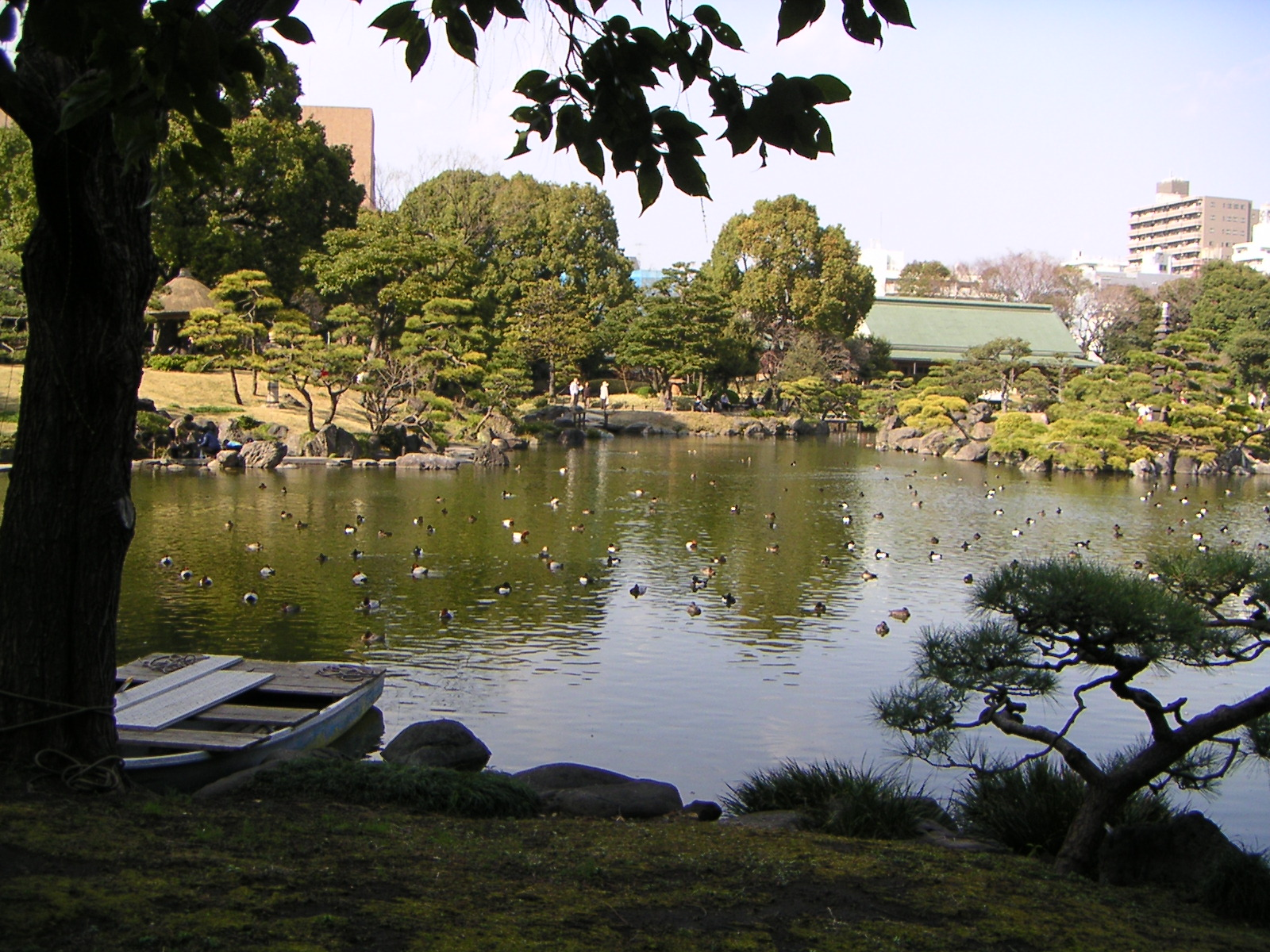 Kiyosumi Teien #3